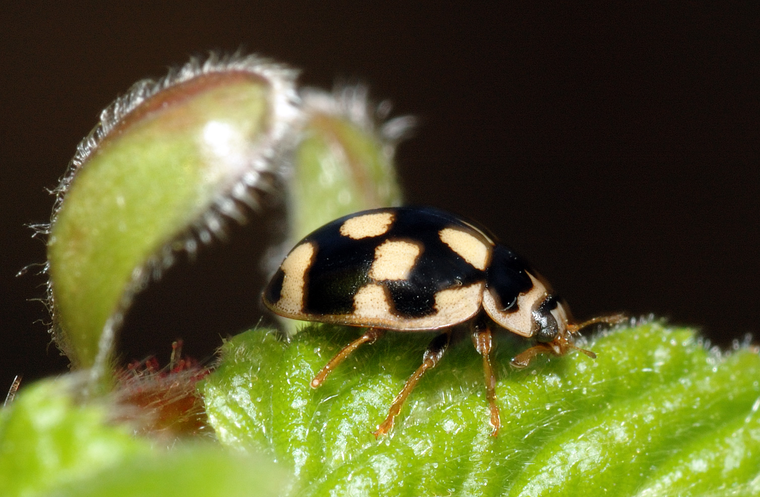 This image shows a 0.19 inch (4.9 mm) long beetle of the species Propylaea quatuordecimpunctata.